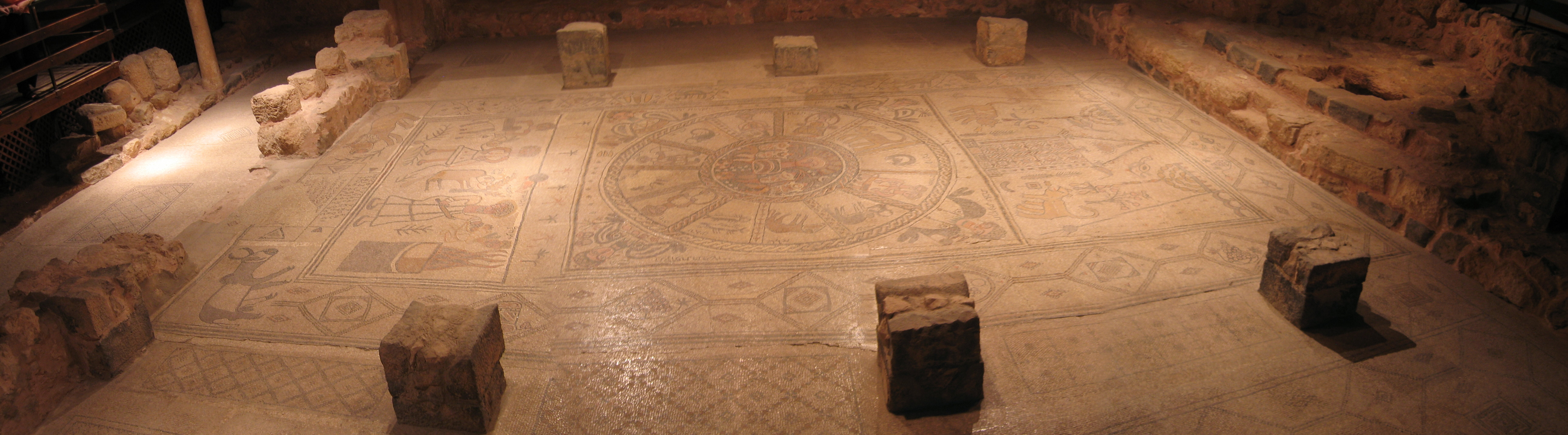 Beth Alpha synagogue.